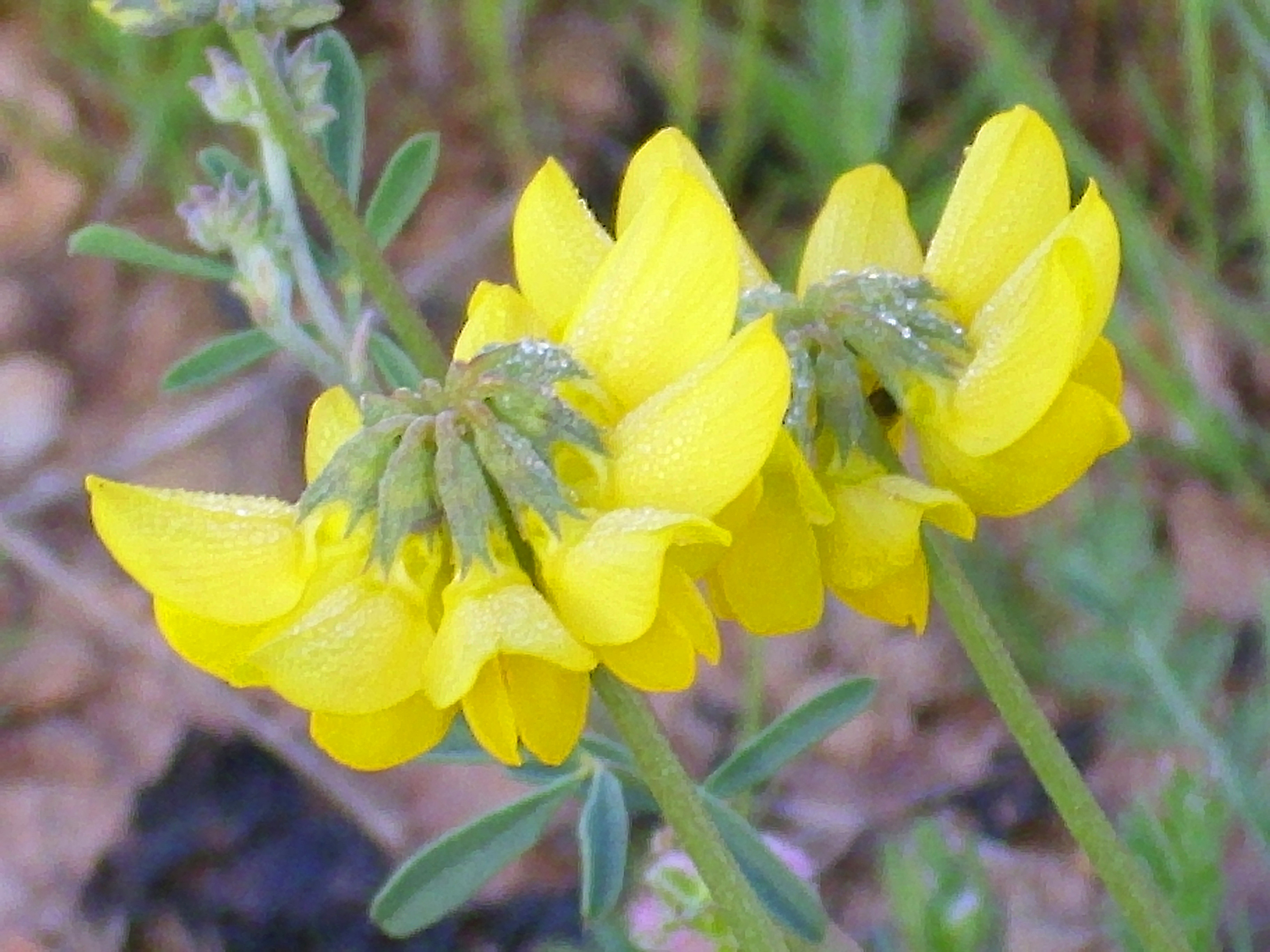 Coronilla minima inflorescence close up Campo de Calatrava, Spain